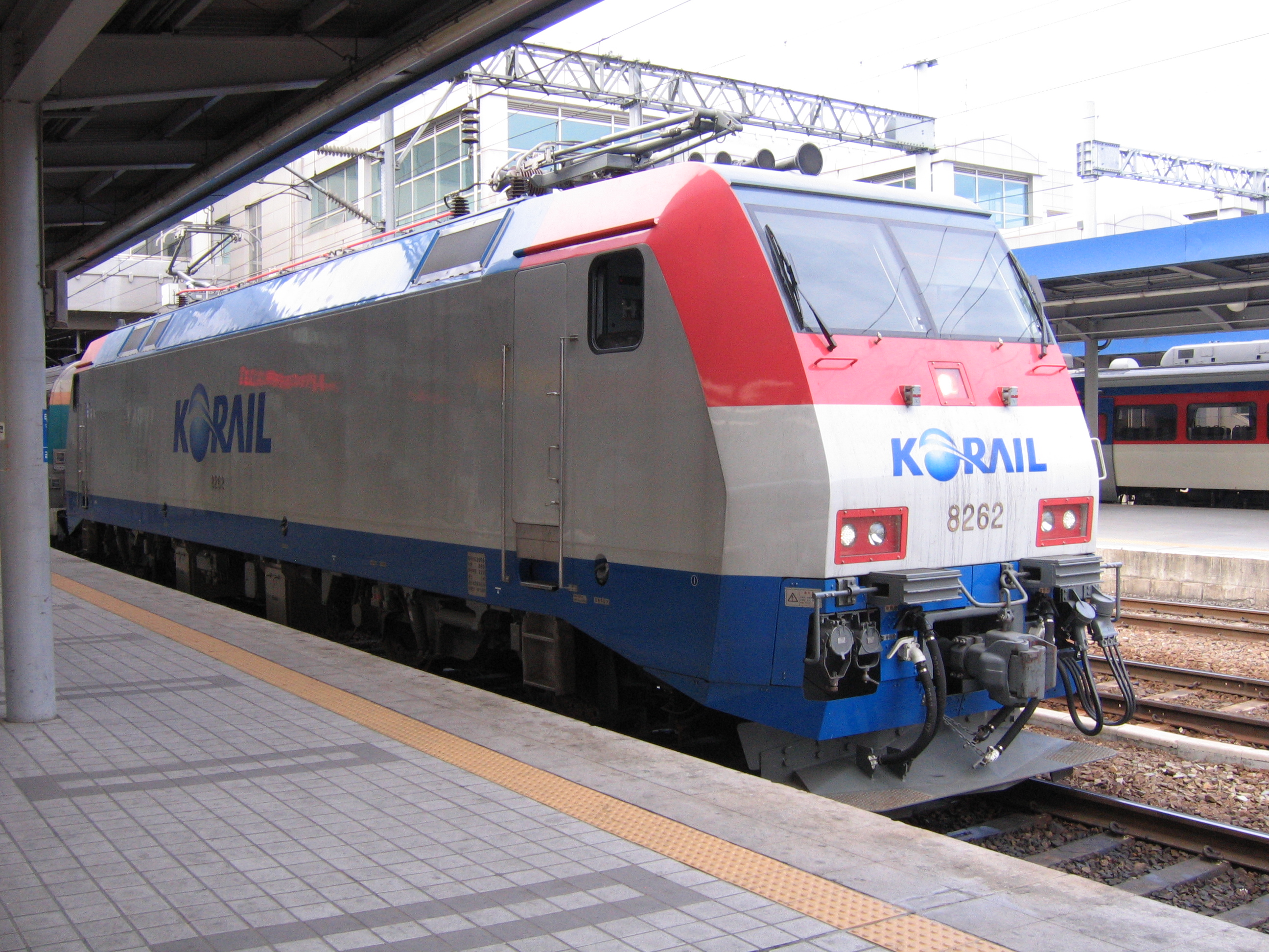 Korail electric locomotive 8262 in Dongdaegu station.